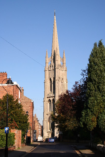 View east along Westgate, Louth, Lincolnshire to the tower and spire of St James' parish church. The church was begun in 1501 and completed in 1515 at a cost of £305 7s 5d. The tower and spire were added about 60 years later.